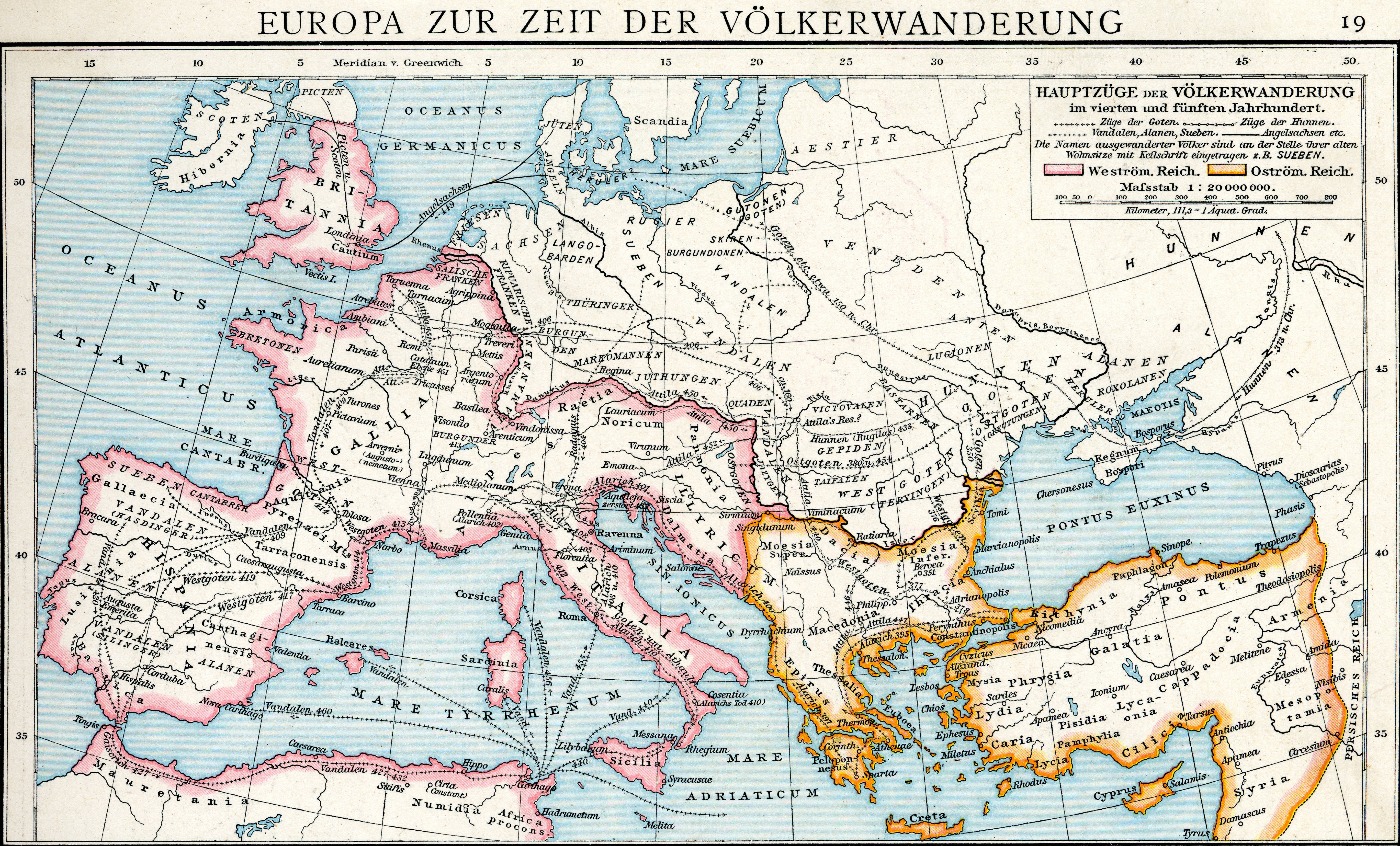 First map (of four) from plate 19 of Professor G. Droysens Allgemeiner Historischer Handatlas, published by R. Andree